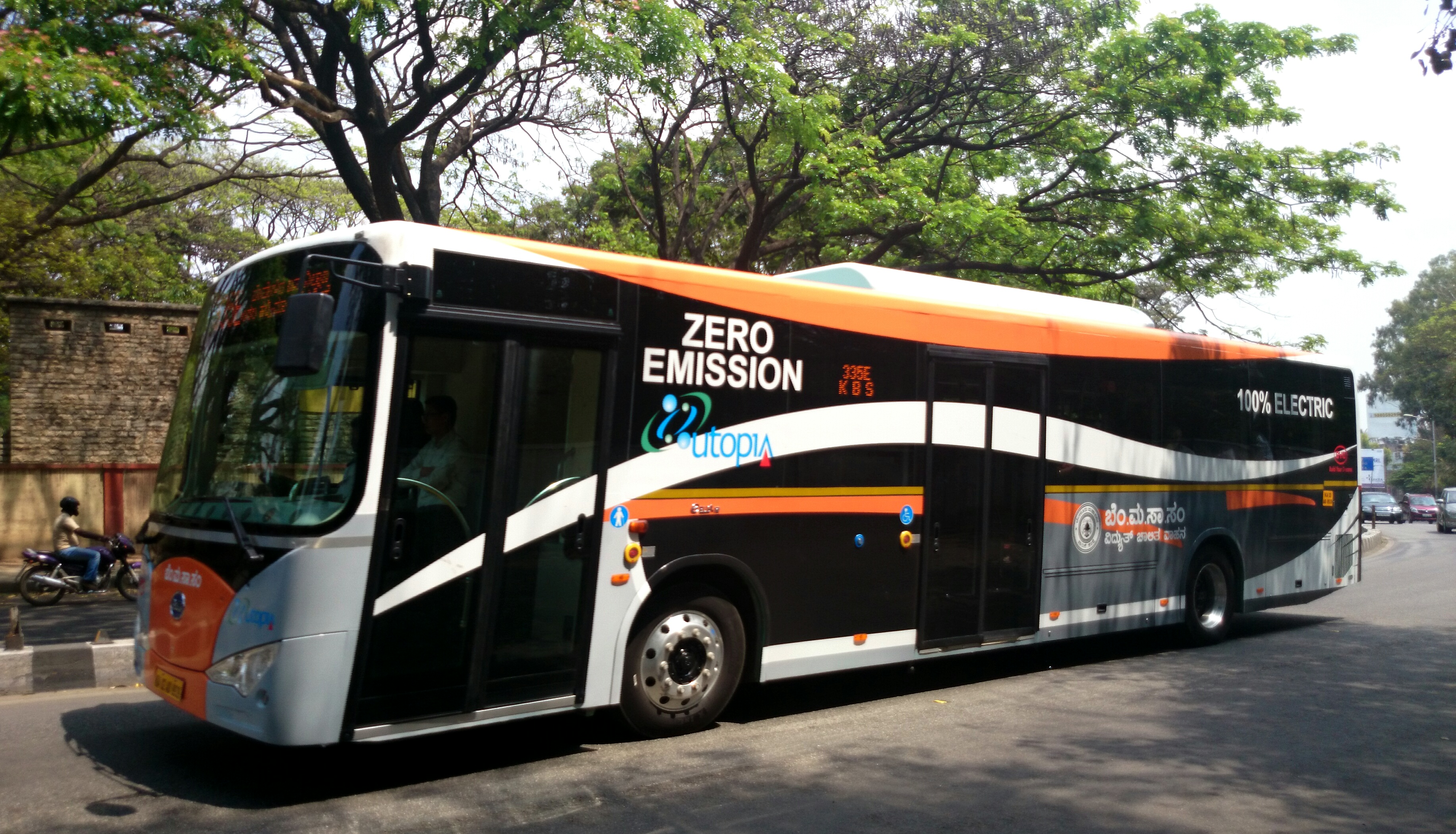 Electric Buses in Bangalore by BmTc